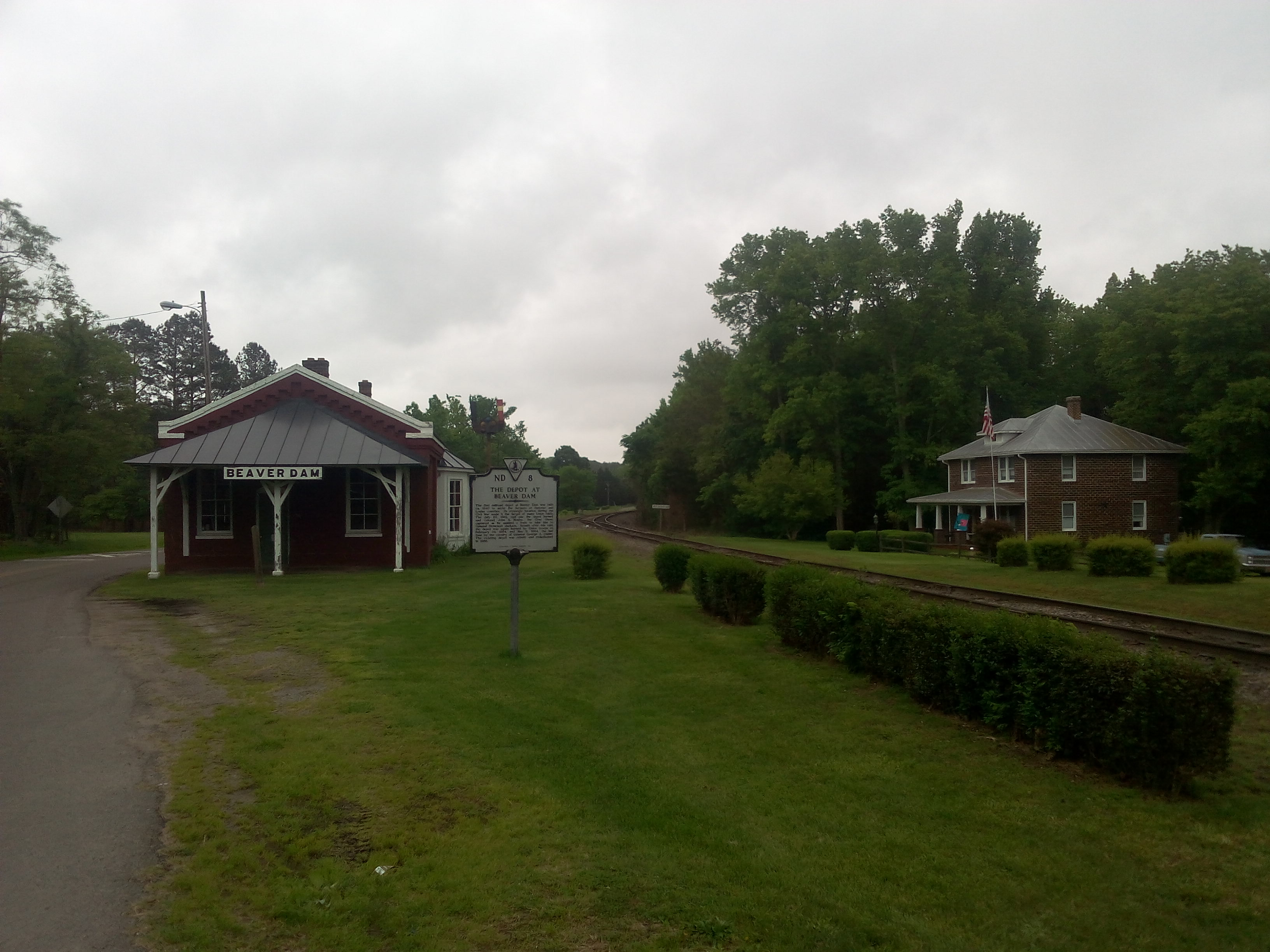 Beaverdam station, tracks and historical marker